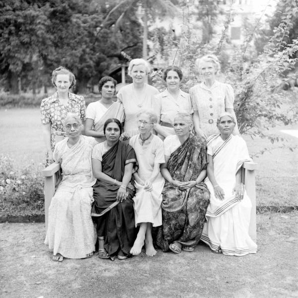 own this work